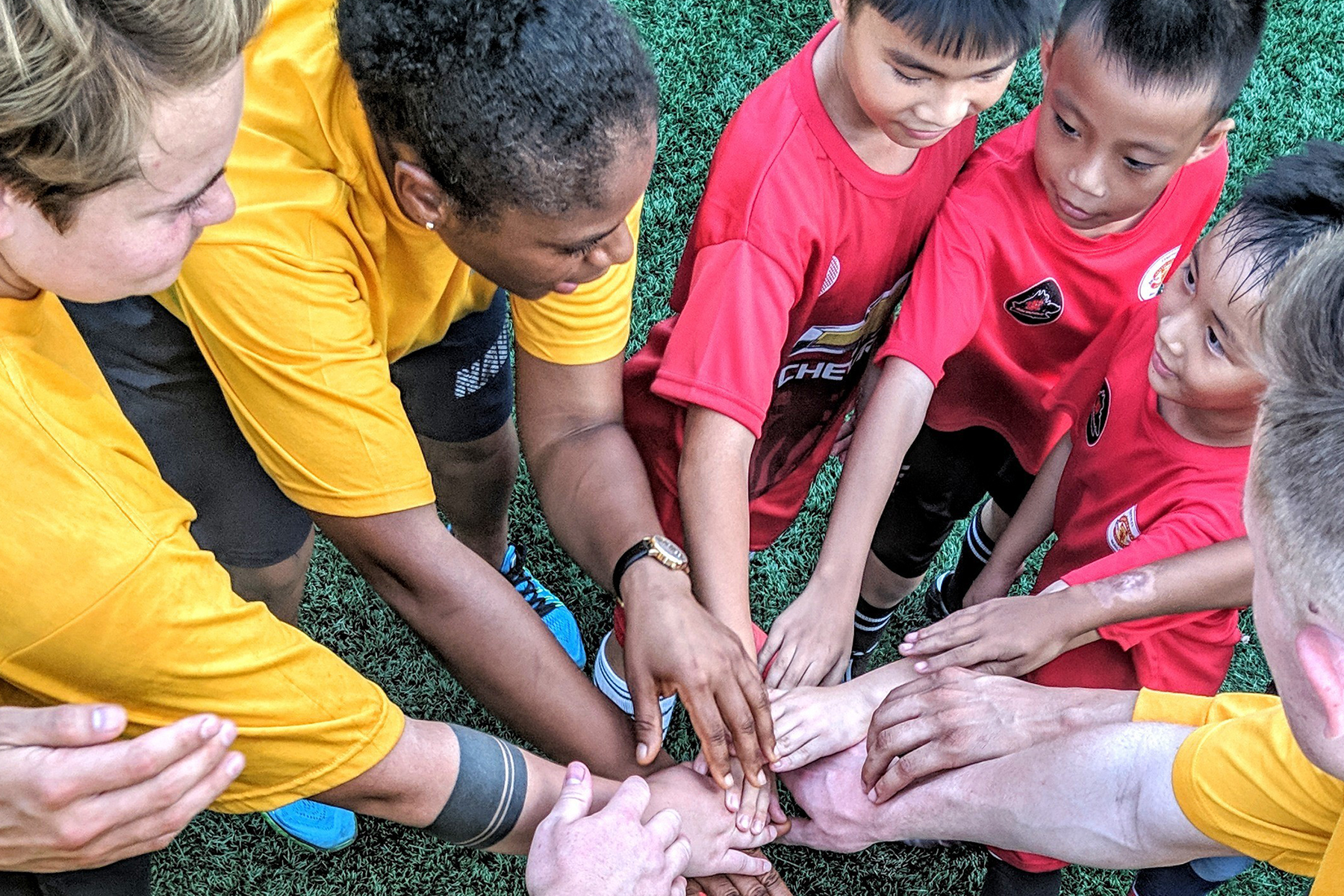 Sailors huddle with children during a soccer game as part of a community relations event in Kota Kinabalu, Malaysia, April 12, 2019.